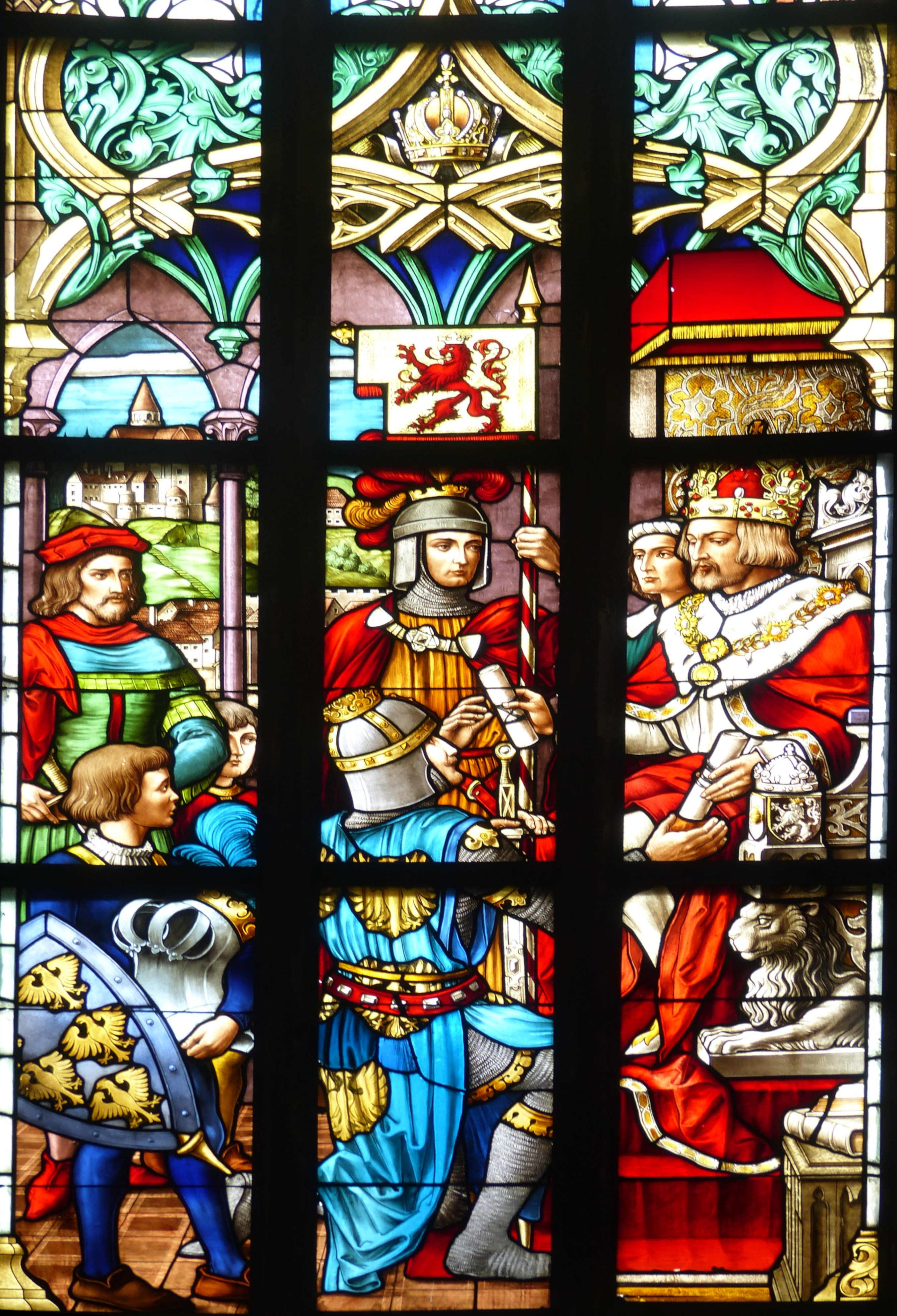 Litschau ( Lower Austria ). Parish church: Stained glass window ( 1912 ) - King Vaclav lends the lands of duke Albrecht III to the dukes William I and Albrecht IV in 1398.